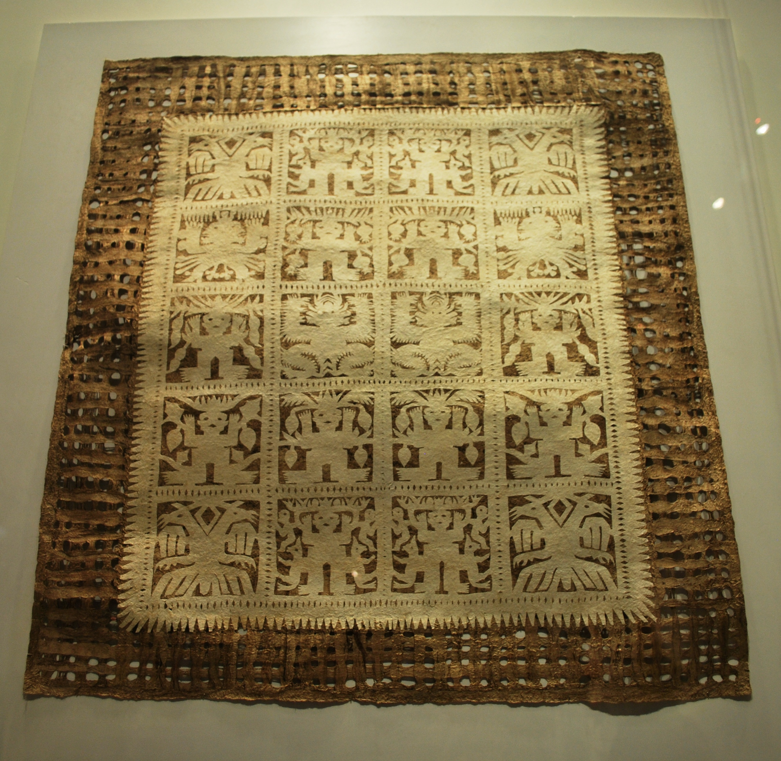 Amate paper cut out on display at the Museum of Artes Populares in Mexico City